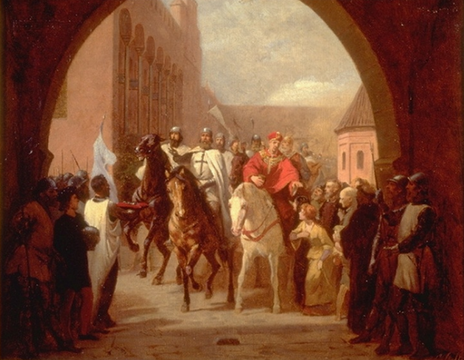 Teutonic Knight entering Malbork Castle